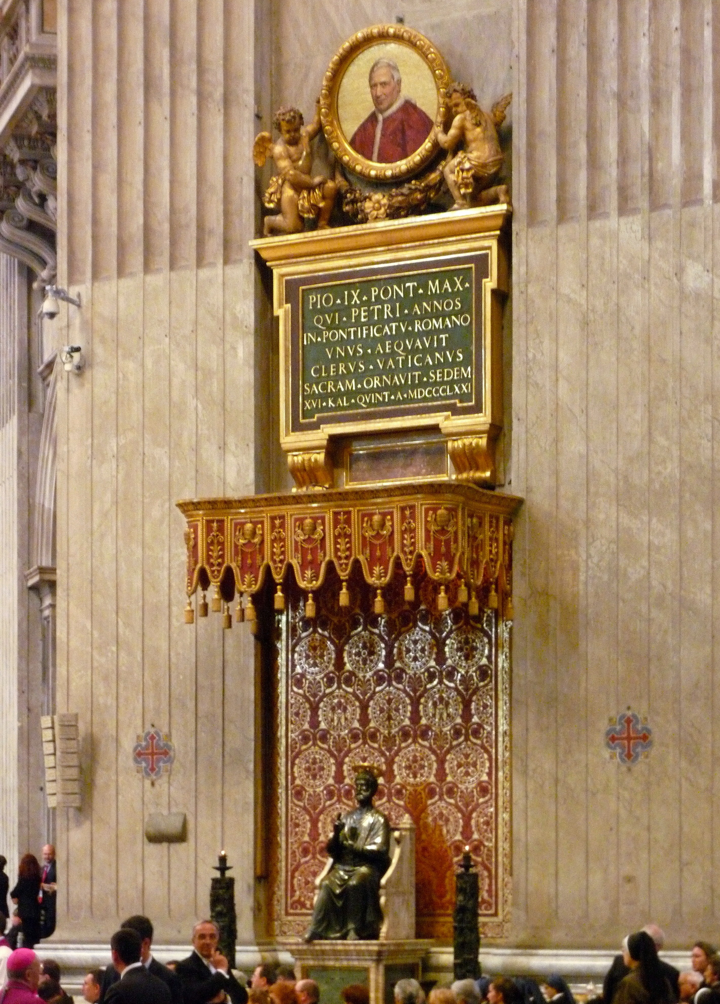 Saint Peter statue inside the Vatican Basilica